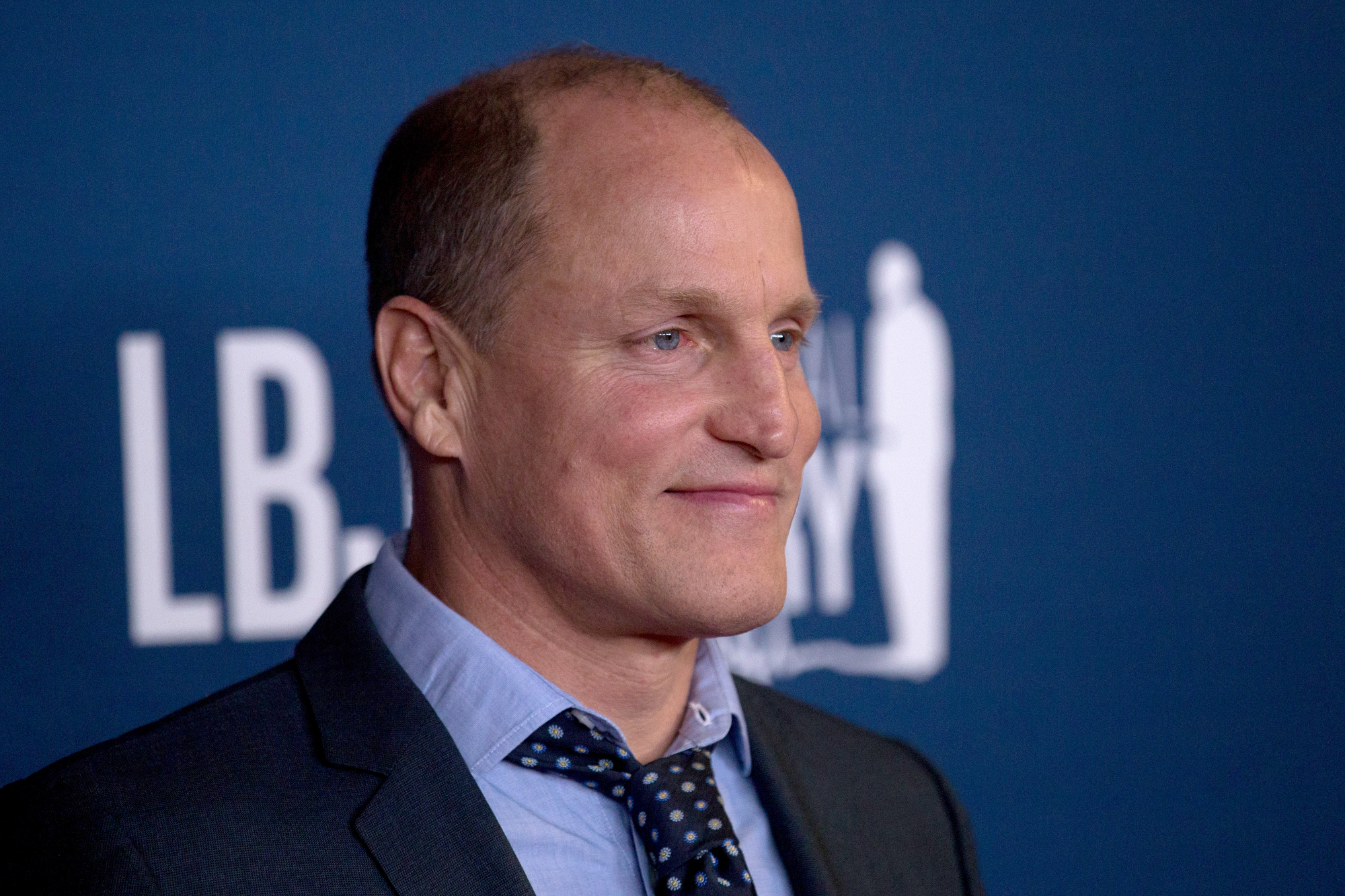 Actor Woody Harrelson at a red carpet at the LBJ Presidential Library in Austin, Texas.